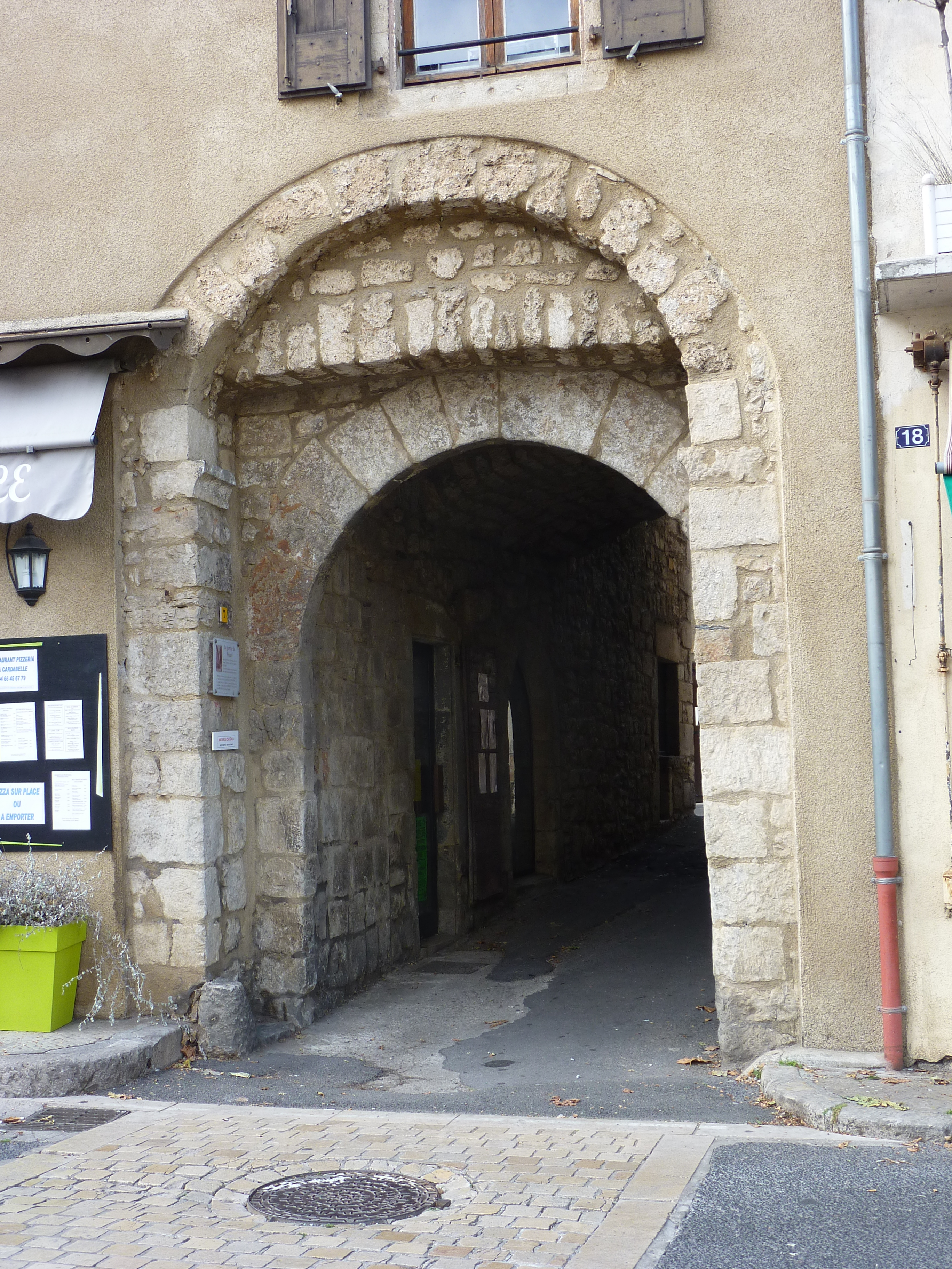 One of the remaining gates of the town